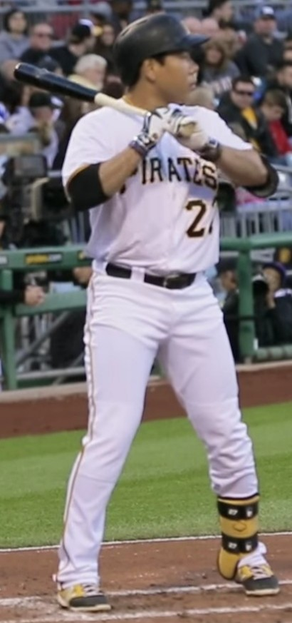 Jung-ho Kang hitting in a game